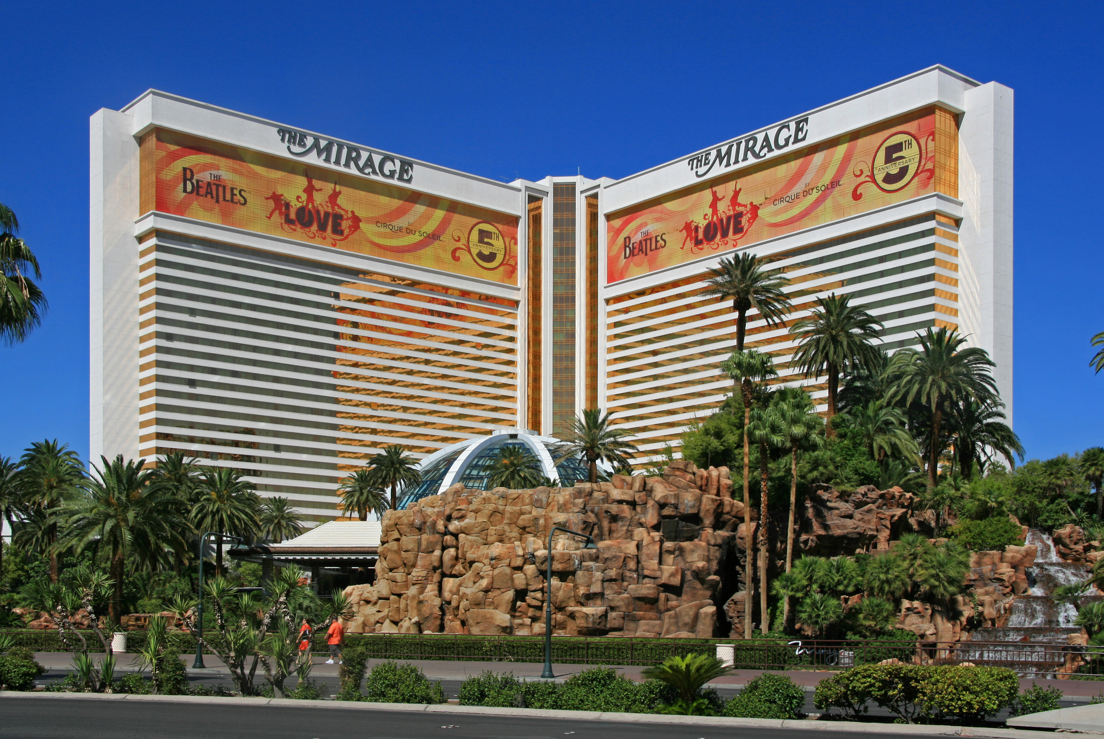 The Mirage Hotel (Las Vegas, Nevada)